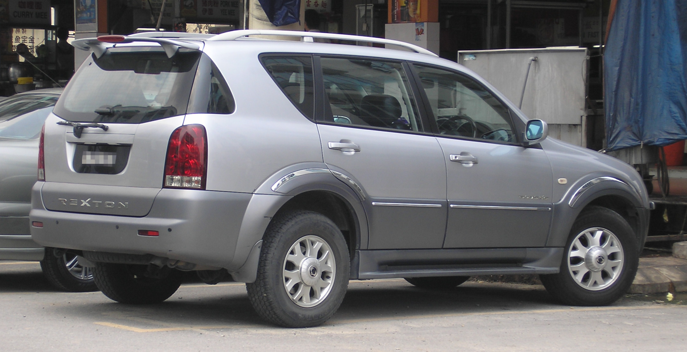 Rear quarter view of a first generation Ssangyong Rexton, in Serdang, Selangor, Malaysia.